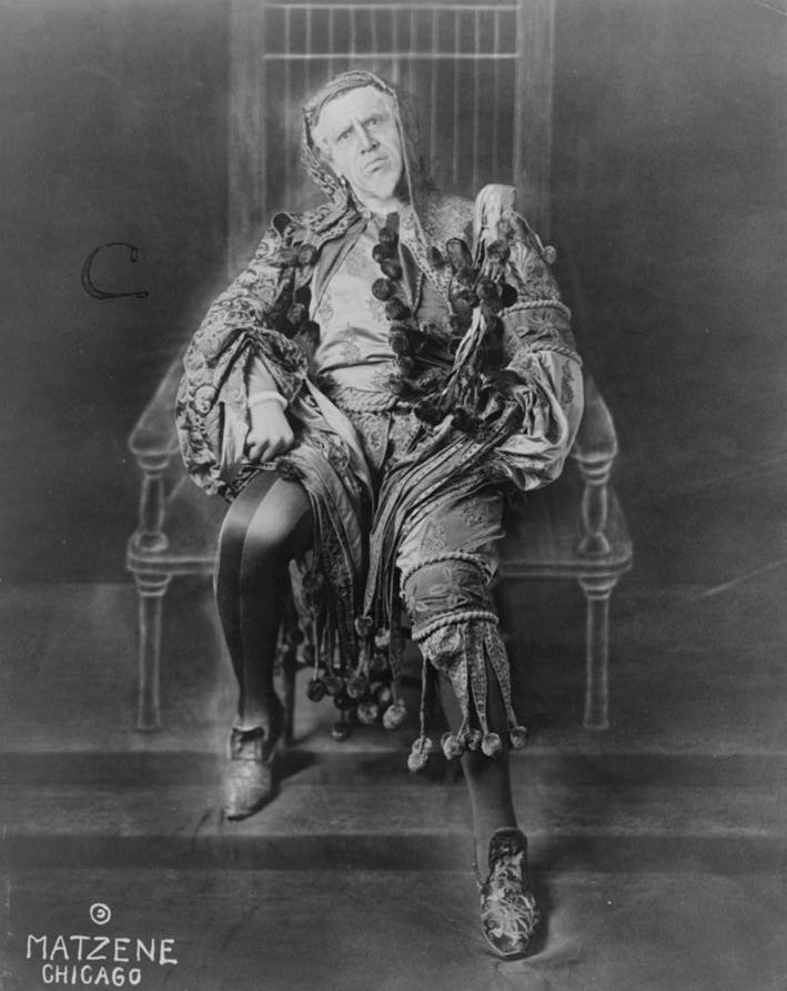 Titta Ruffo as Rigoletto, full-length portrait, facing front, seated in chair